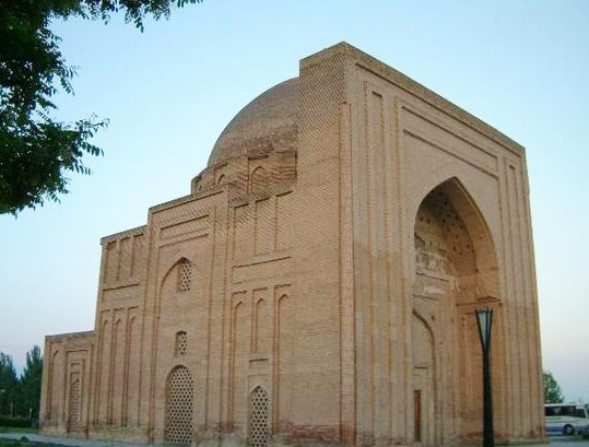 Haruniyeh, Razavi Khorasan. Sufis used to hang out here during the Middle Ages. Iran. Photo provided (taken and uploaded) by Zereshk. Be cool.